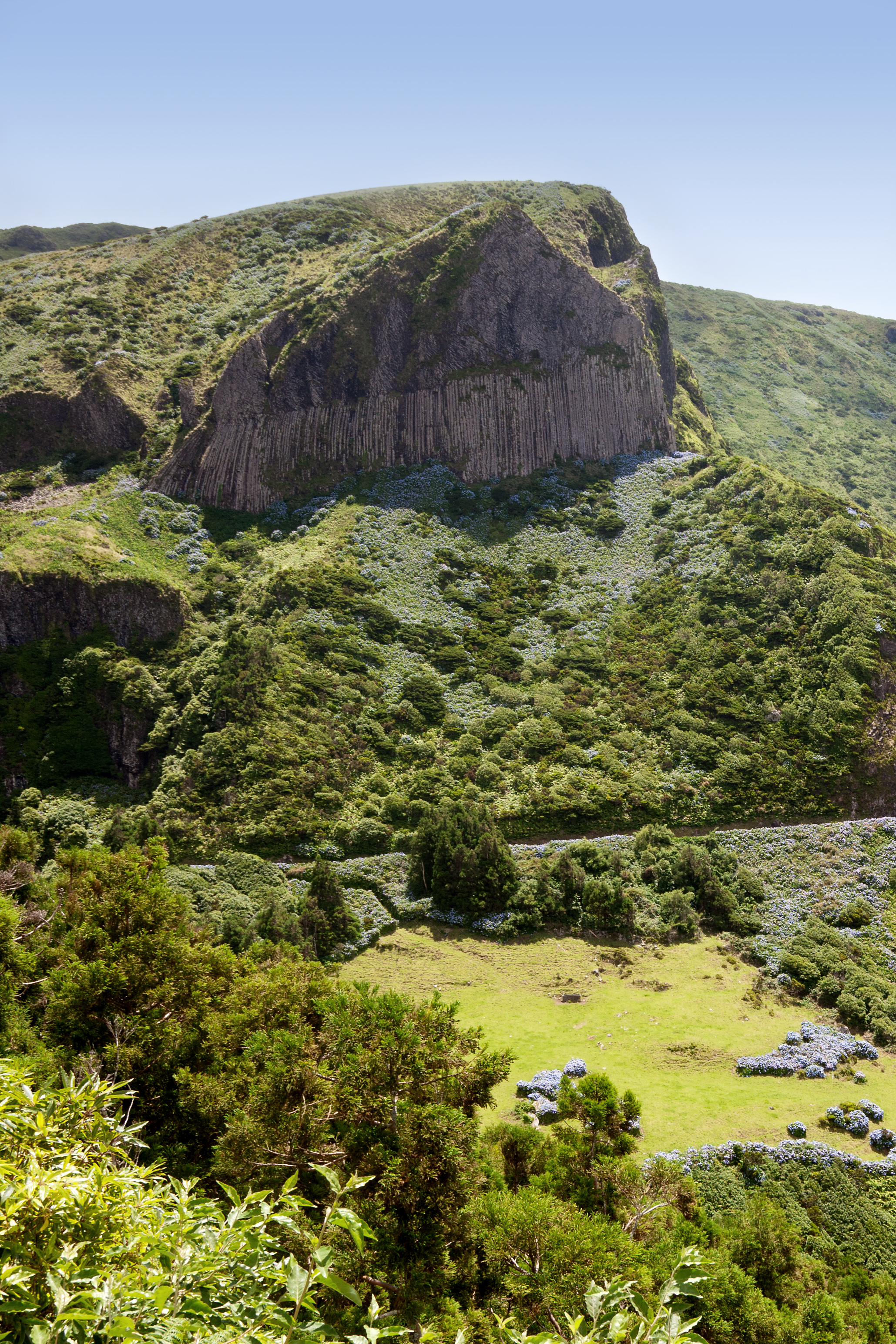 Rocha dos Bordões, Flores island, Azores, Portugal